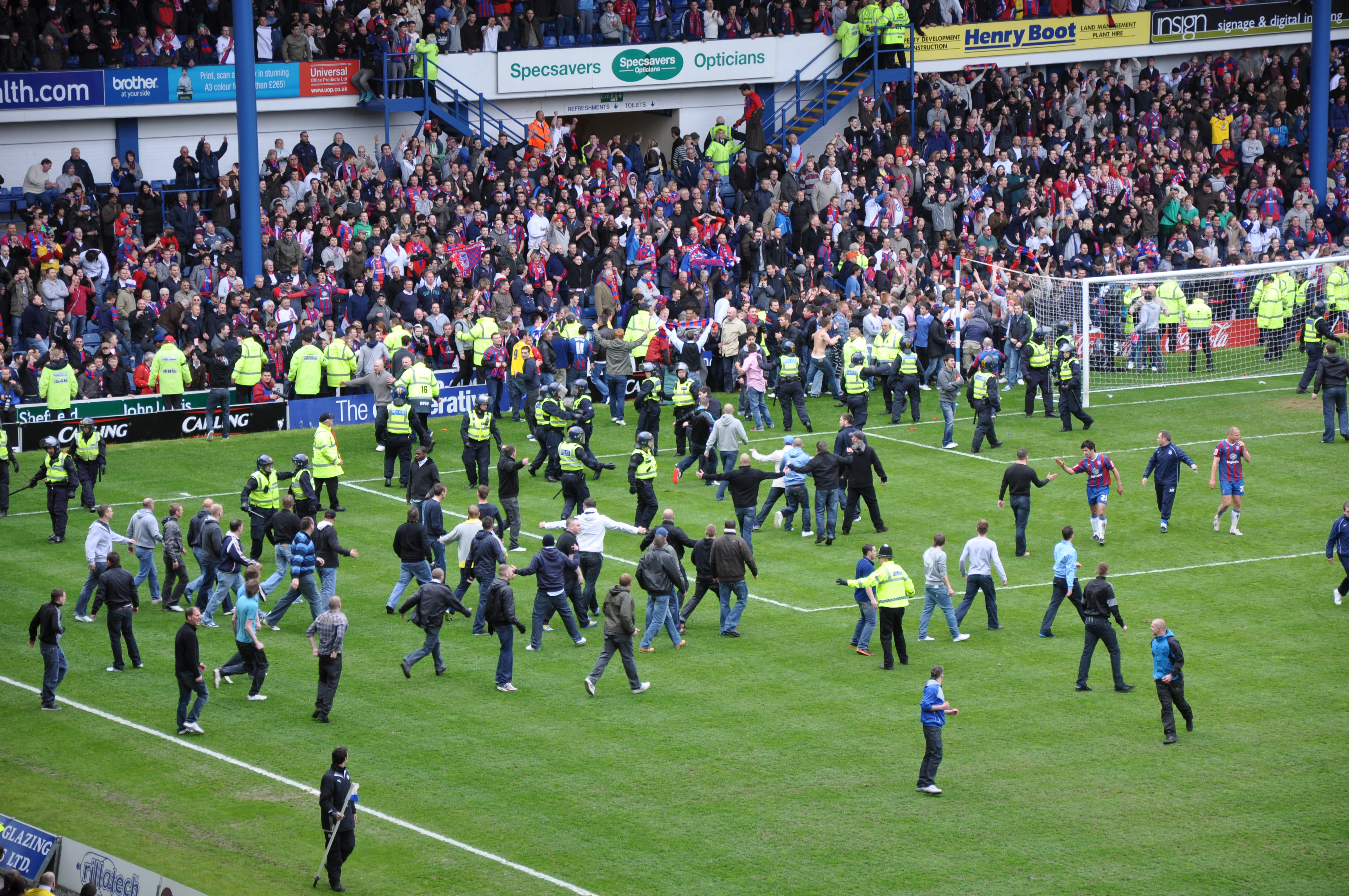 Crystal Palace fans rush past police to celebrate with players after avoiding relegation, away to Sheffield Wednesday at Hillsborough